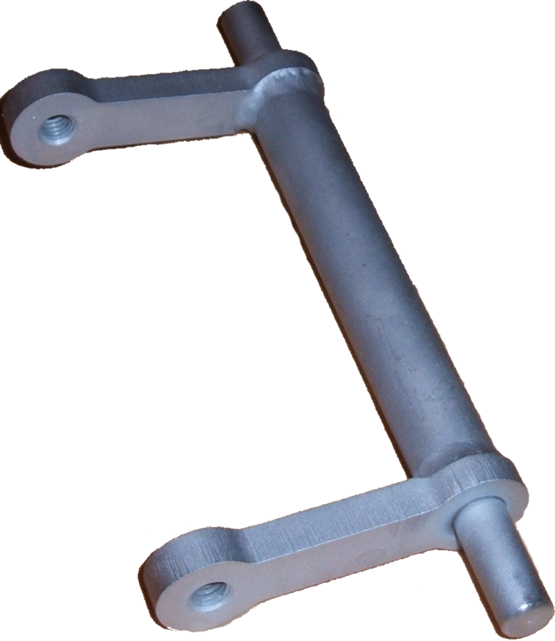 Steel weldment with hard chrome finish.